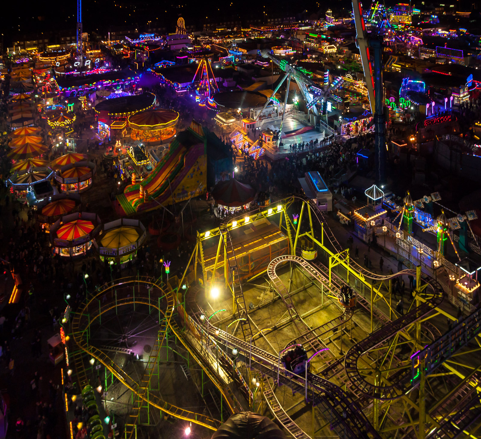 Hull Fair 2015 IMG_7433